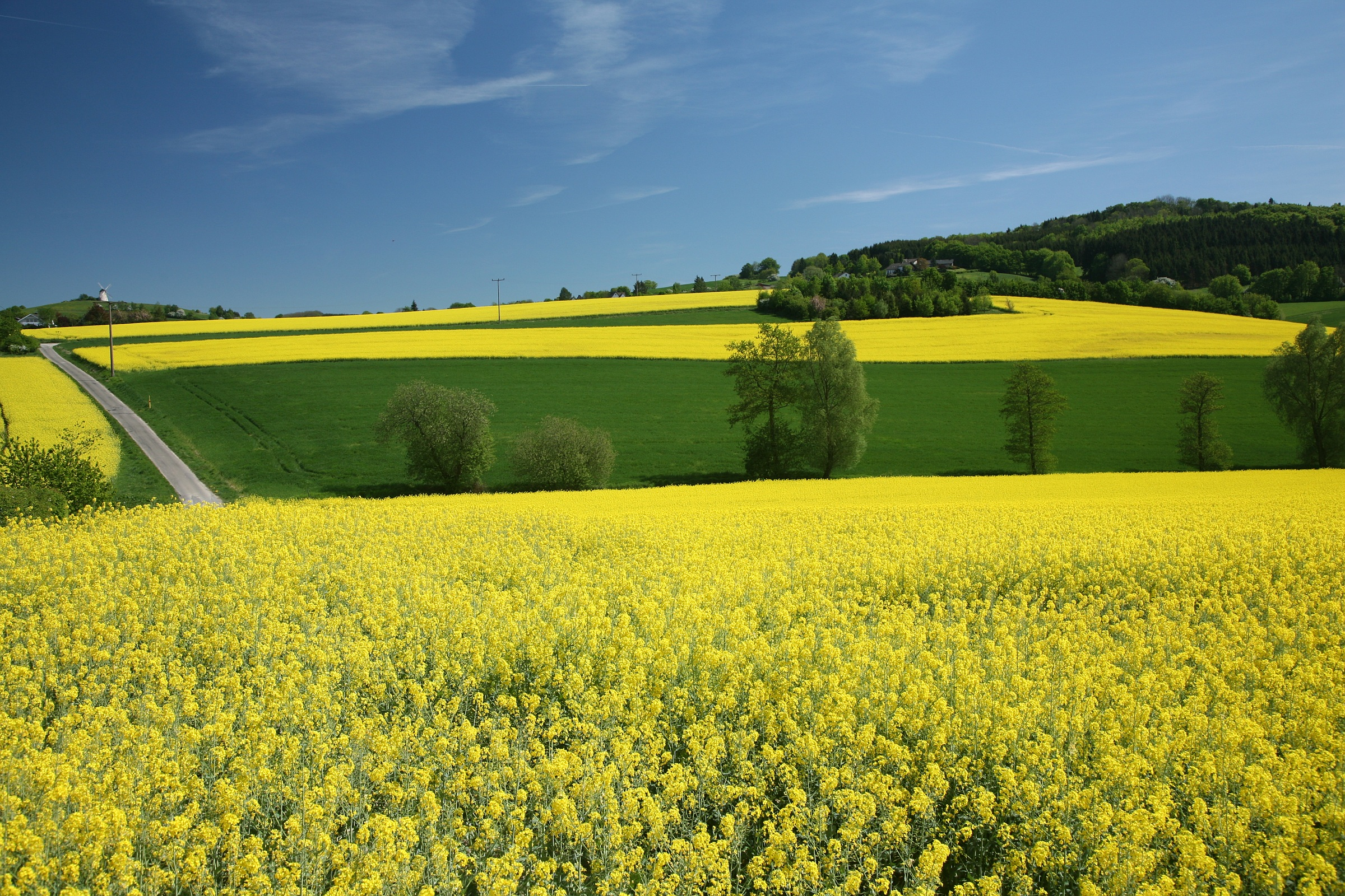 Rapeseed field near Bavenhausen, Germany